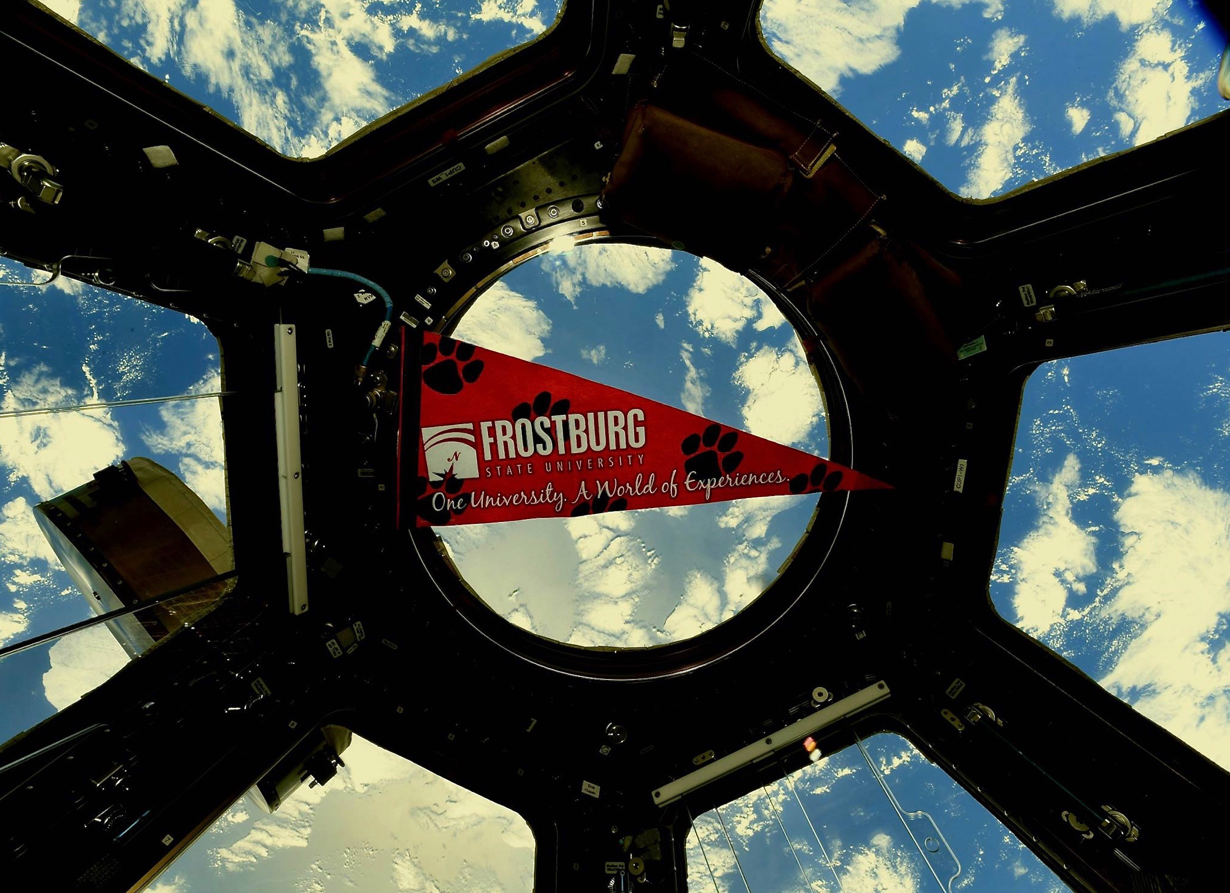 A photograph of Earth from the International Space Station showing a Frostburg State University pennant in the station window